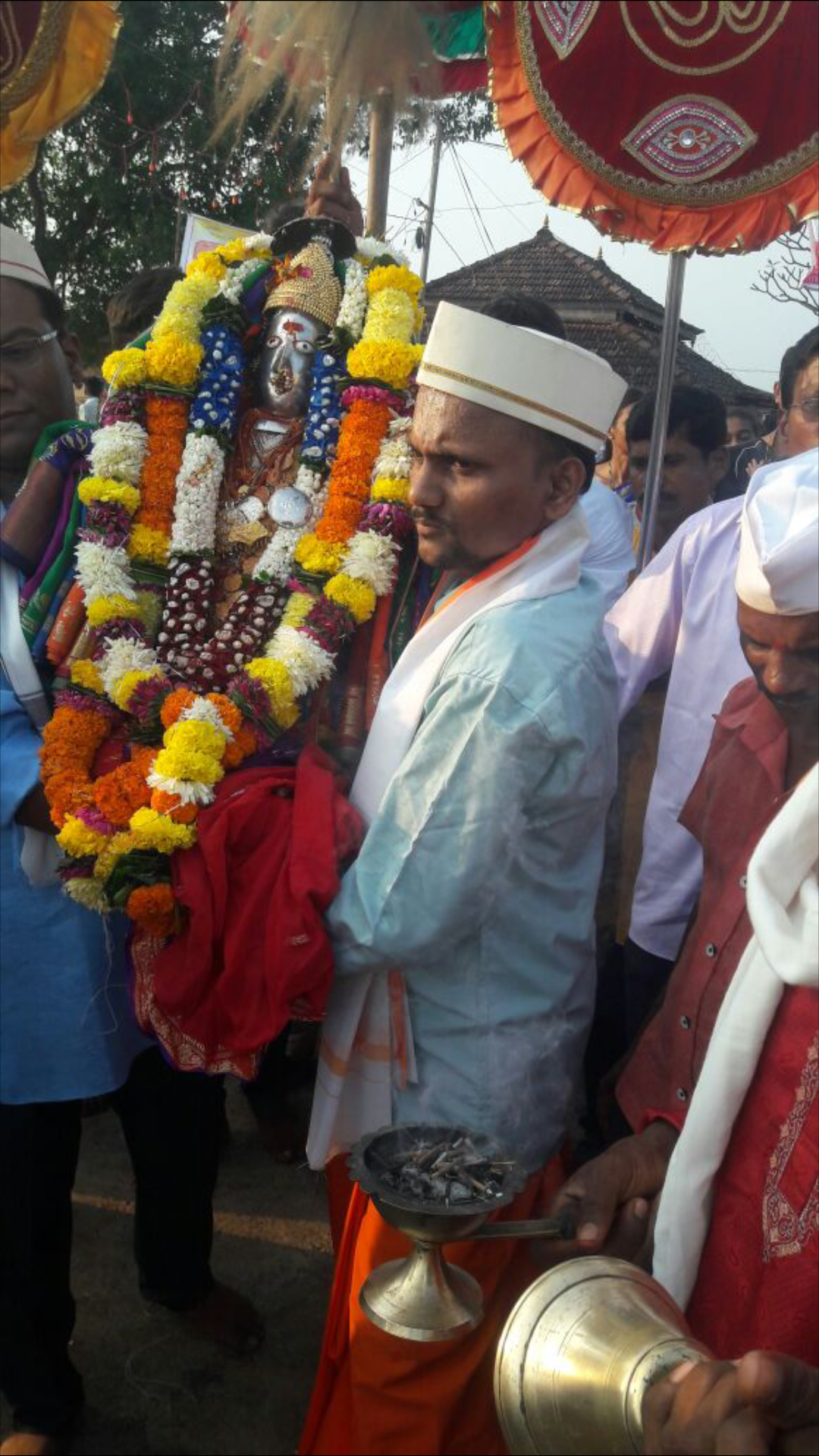 Aryadurga mata